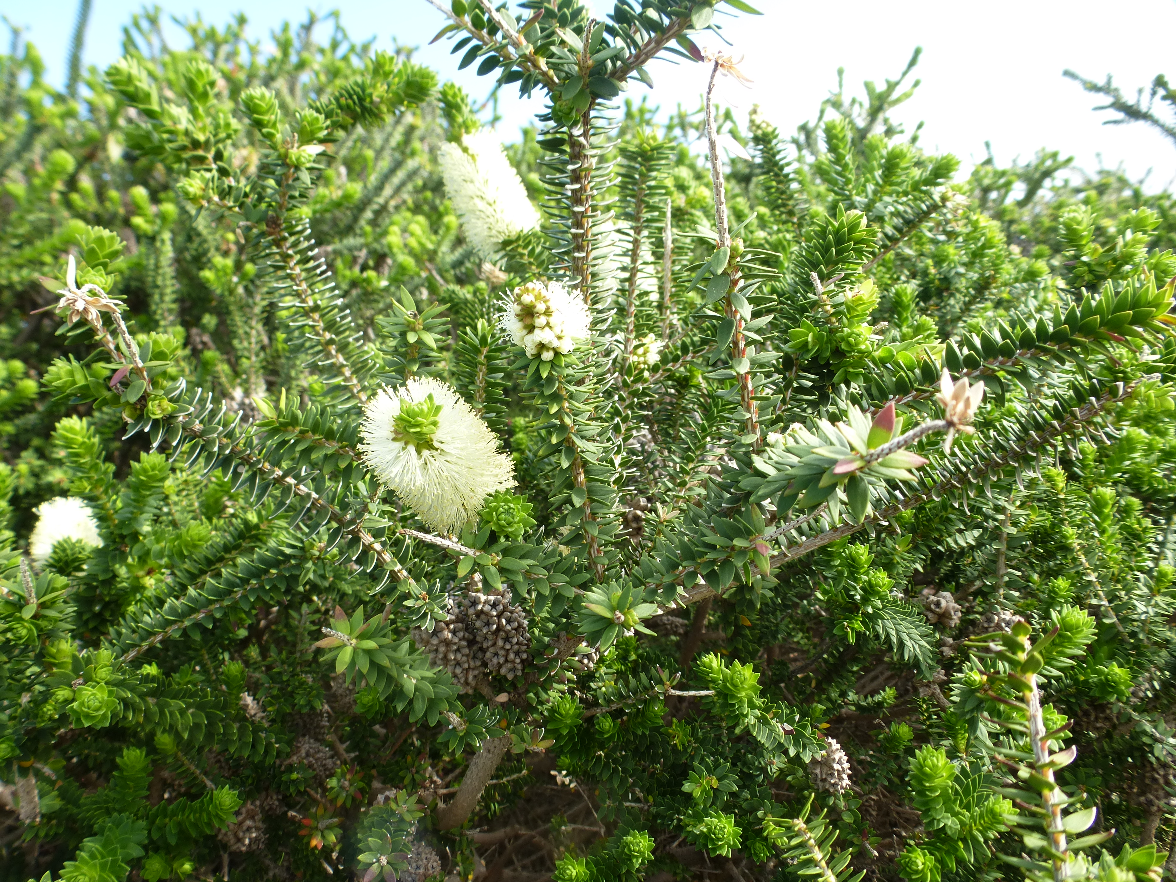 Melaleuca ringens growing at Point d'Entrecasteaux (having survived a recent bushfire)